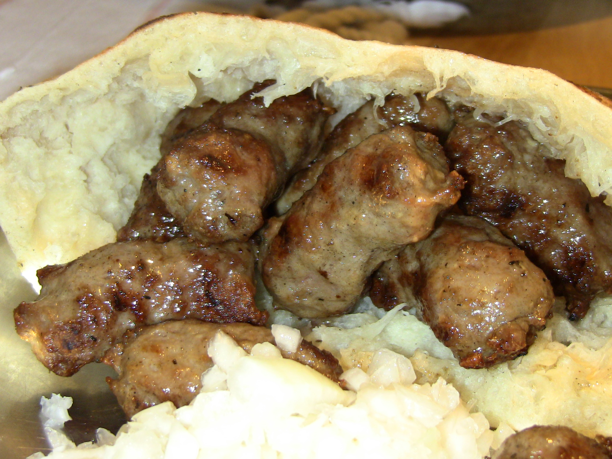 Bosnian Ćevapi from Sarajevo old town